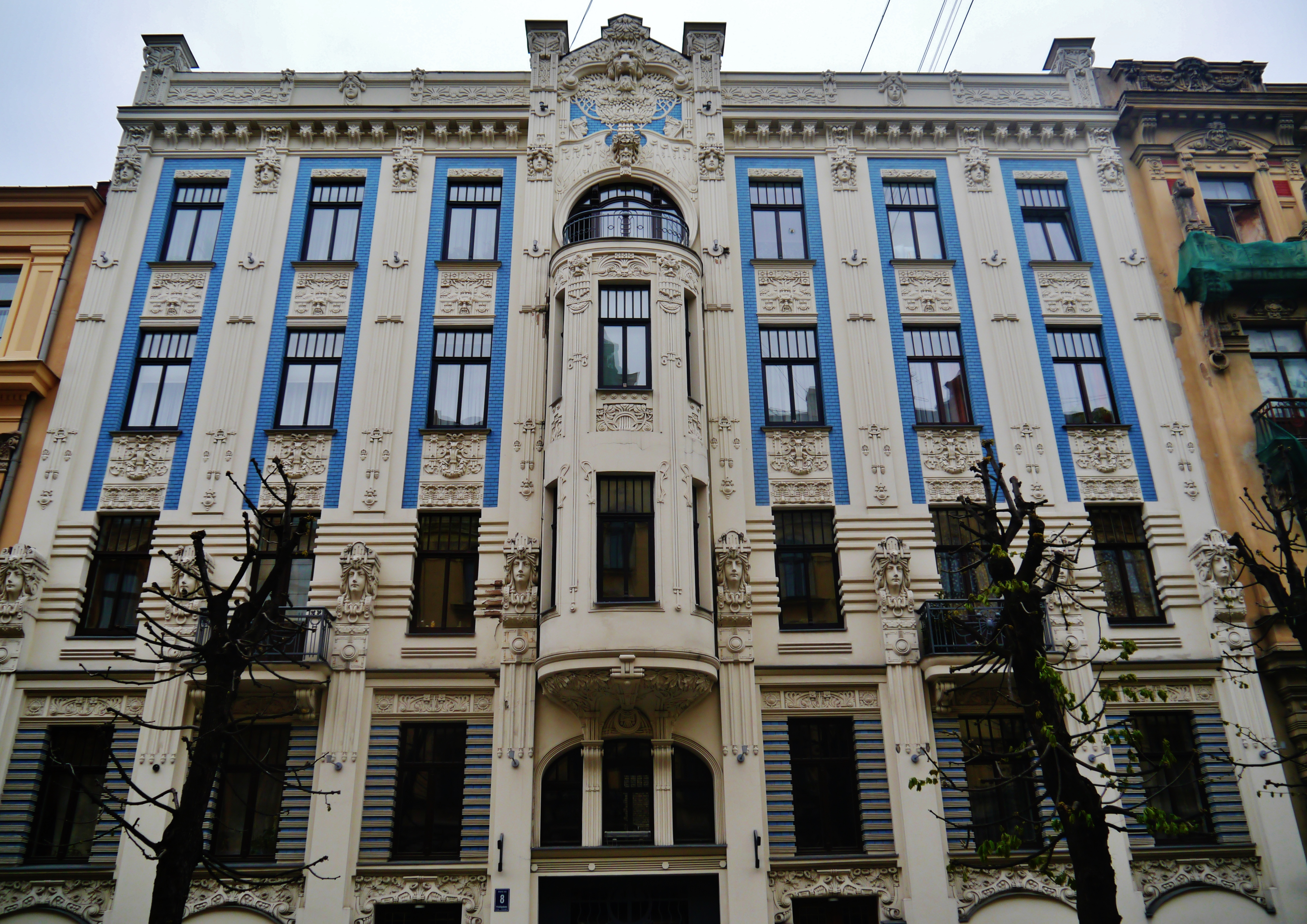 Art Nouveau at Albert Street, Riga, Latvia